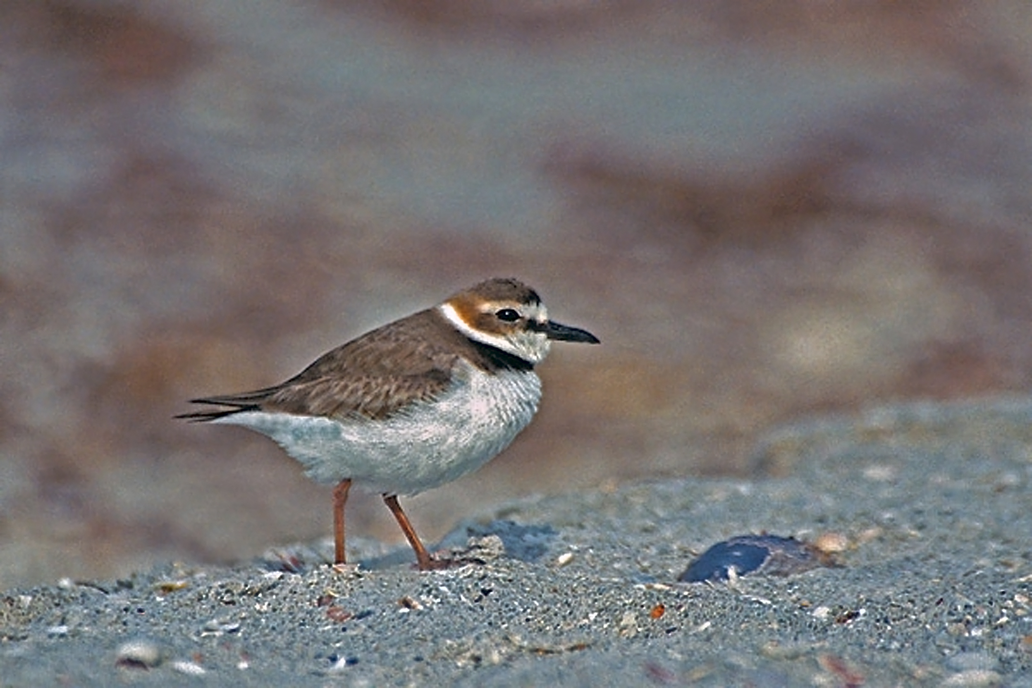 Photograph taken at Bowman's Beach, Sanibel Island, Florida.